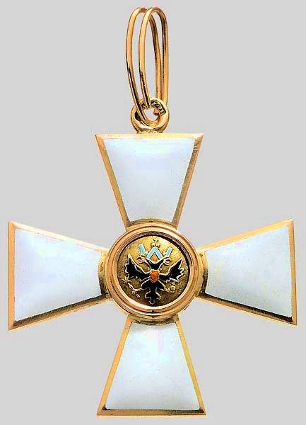 Badge to Order St George 4st